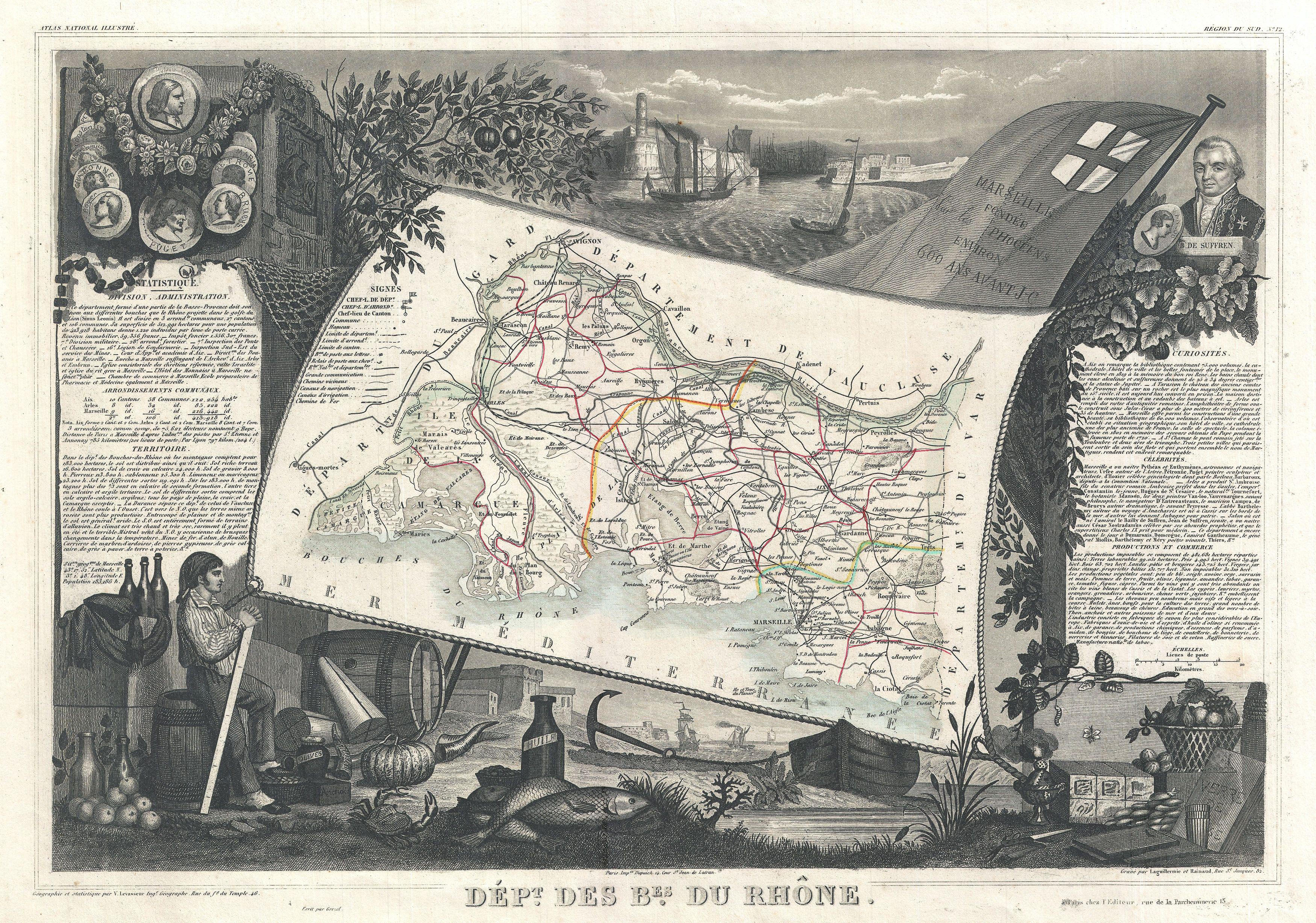 This is a fascinating 1857 map of the French department of Bes Du Rhone, France. Covers the coastal region to the north surrounding Mareseille. This area of France is known for its variety of wines. The northern sub-region produces red wines from the Syrah grape and white wines from Viognier grapes. The southern sub-region produces an array of red, white and rosé wines, often blends of several grapes such as in Châteauneuf-du-Pape. There is a short textual history of the regions depicted on both the left and right sides of the map. Published by V. Levasseur in the 1852 edition of his Atlas National de la France Illustree.